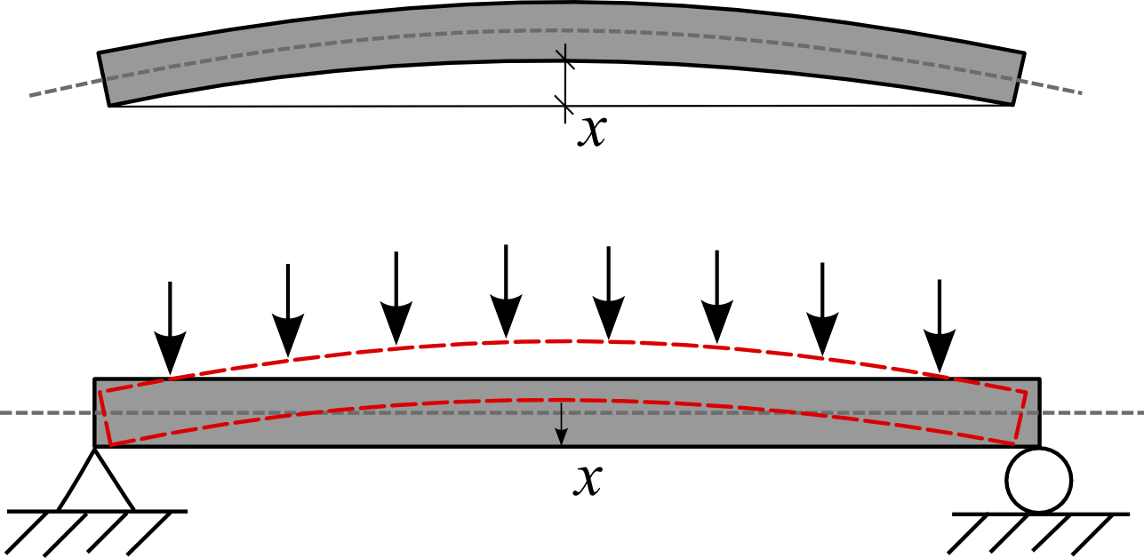 Vertical exaggeration x of a single-span beam